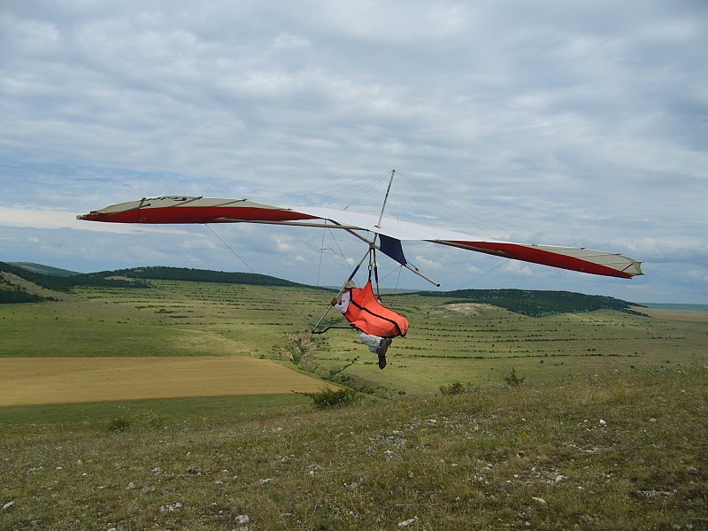 Hanggliding take-off at Baltagesti, Dobrogea (Romania)